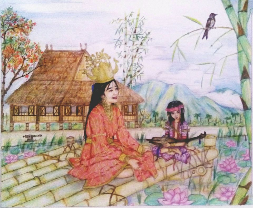 The painting of a young mother and her child which belongs to Maharlika caste and their abode which is the Torogan in background. Tagalog: Ang larawan ng mag-inang kabilang sa uri ng Maharlika na nagpapahinga sa tapat ng kanilang Torogan, isang uri ng palasyong kahoy.